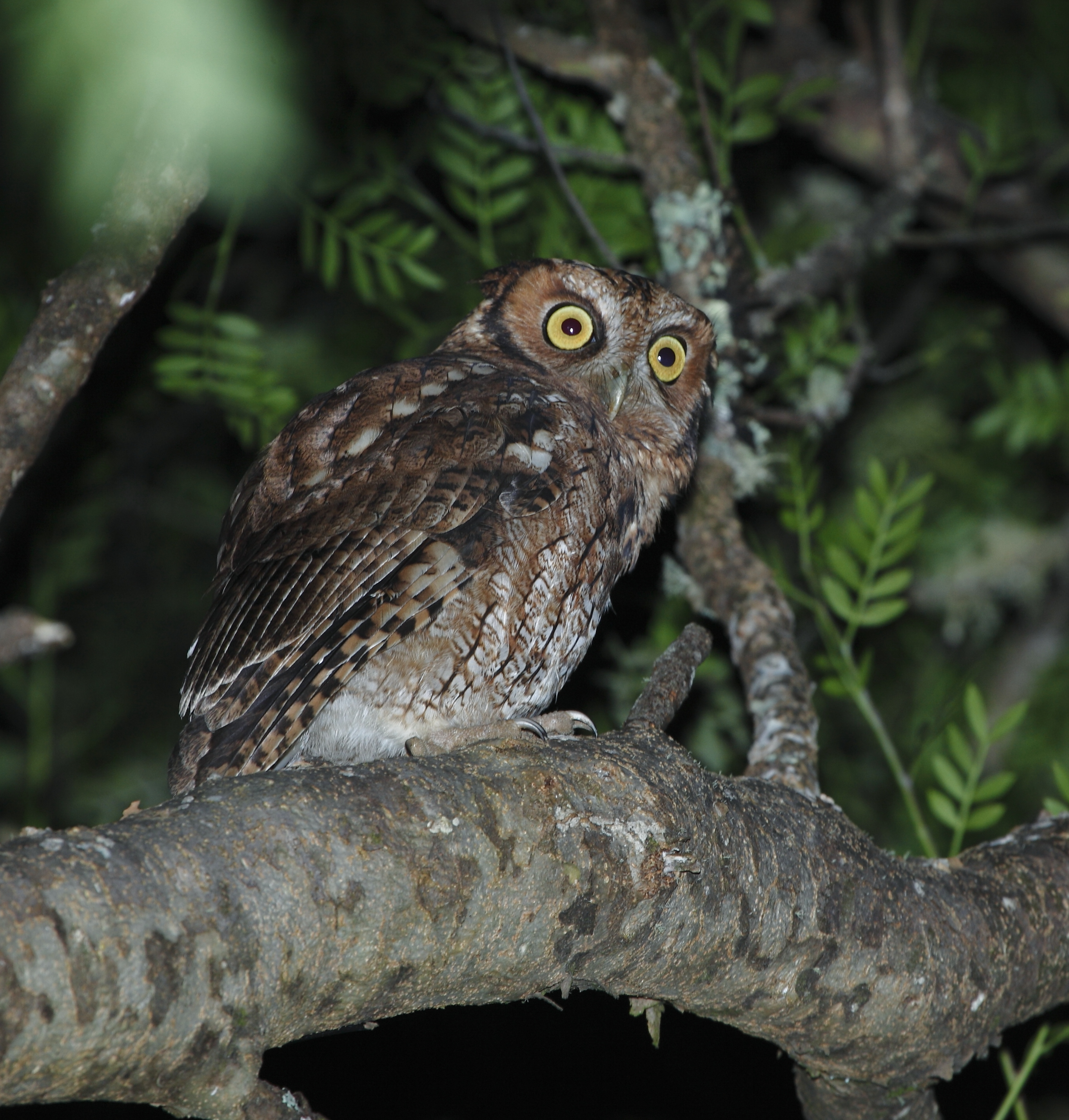 Lon-tufted screech owl at Urupema - Santa Catarina - Brazil